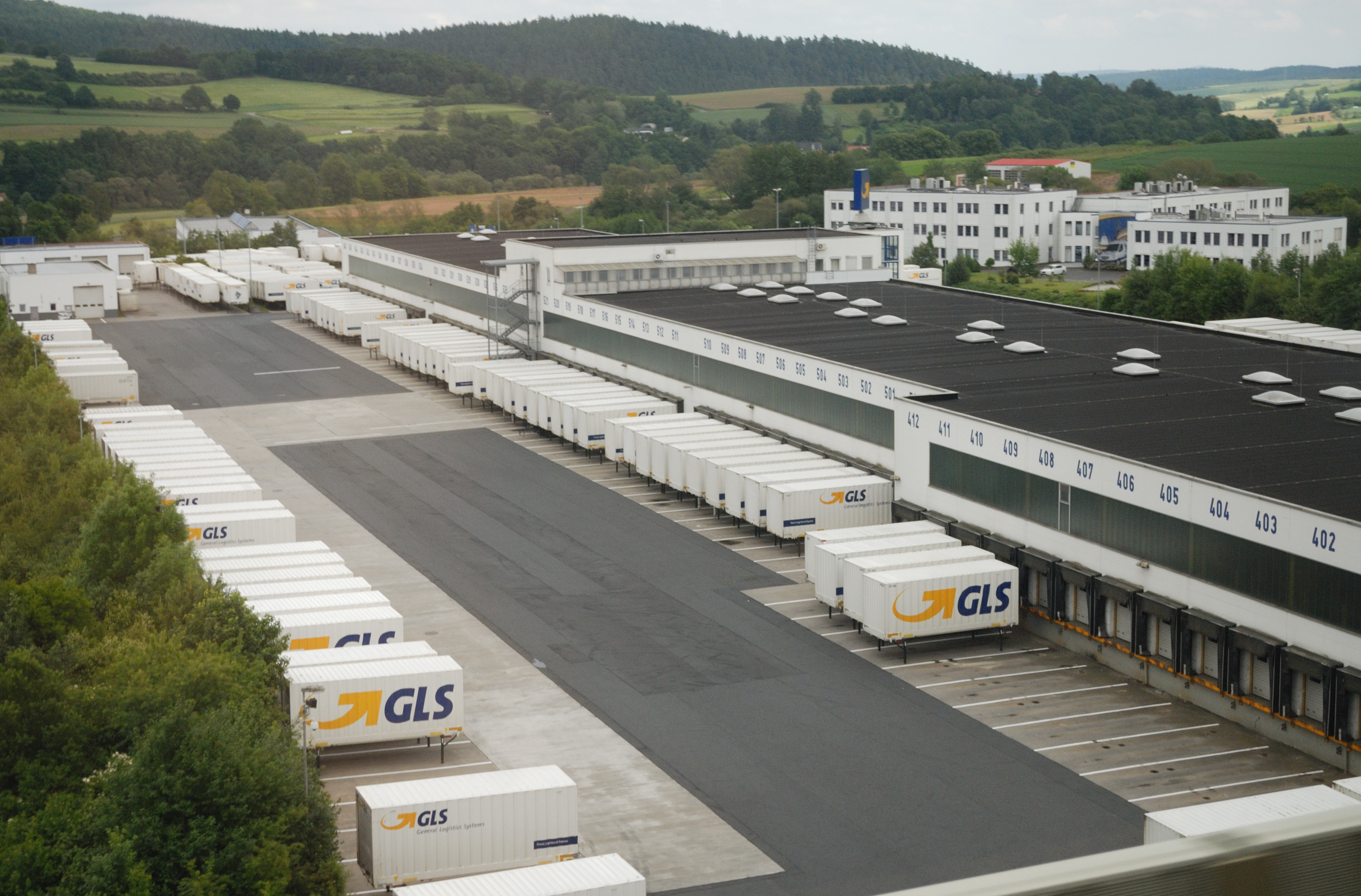 View of GLS depot 64 in Neuenstein. Image taken from an ICE train.